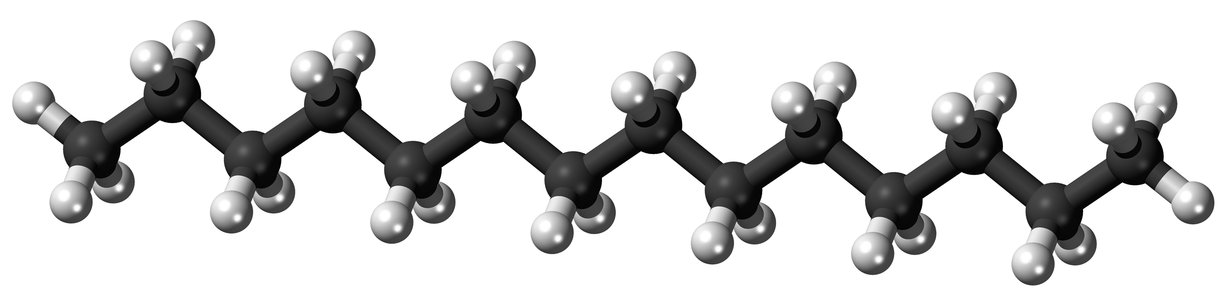 Ball-and-stick model of the tetradecane molecule, an alkane with 14 carbon atoms. Color code: Carbon, C: black Hydrogen, H: white